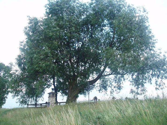 Rzeplin